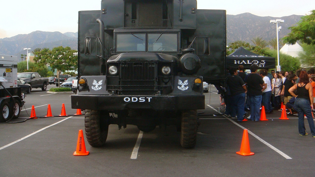 One of several promotional Halo 3: ODST trucks that toured the country.